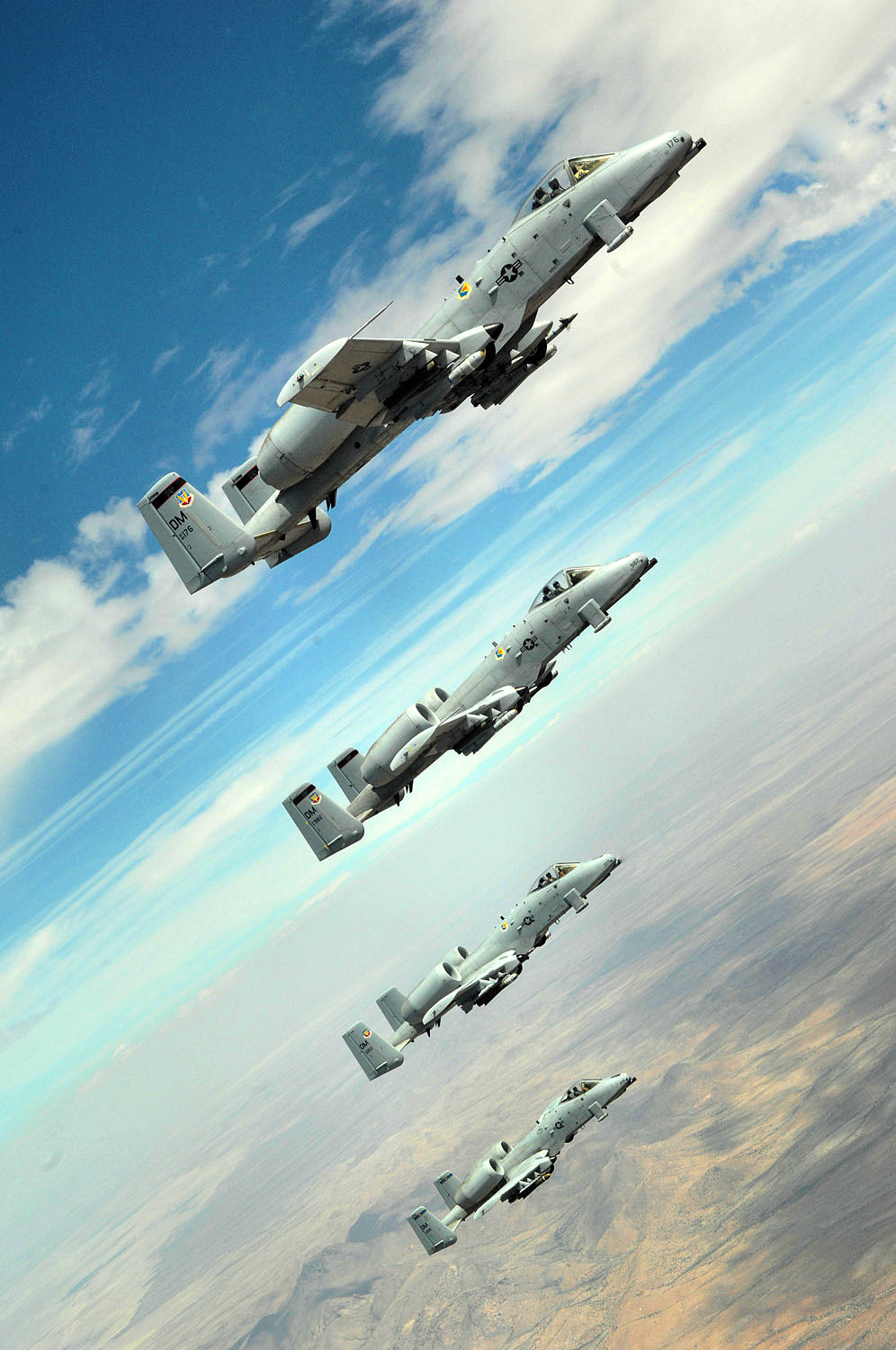 Four A-10s from Davis-Monthan fly in formation over Arizona April 29. The A-10s received in-flight refueling from a KC-135 from an Arizona Air National Guard unit based out Phoenix. The KC-135 was transporting Tucson community leaders to Nellis Air Force Base, Nev., for a Civic Leader Tour. (U.S. Air Force photo by Senior Airman Alesia Goosic)